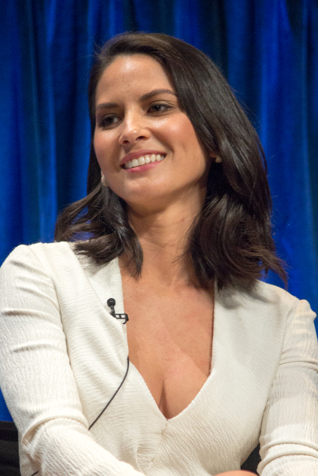 Olivia Munn at the PaleyFest 2013 panel on the TV show "The Newsroom"